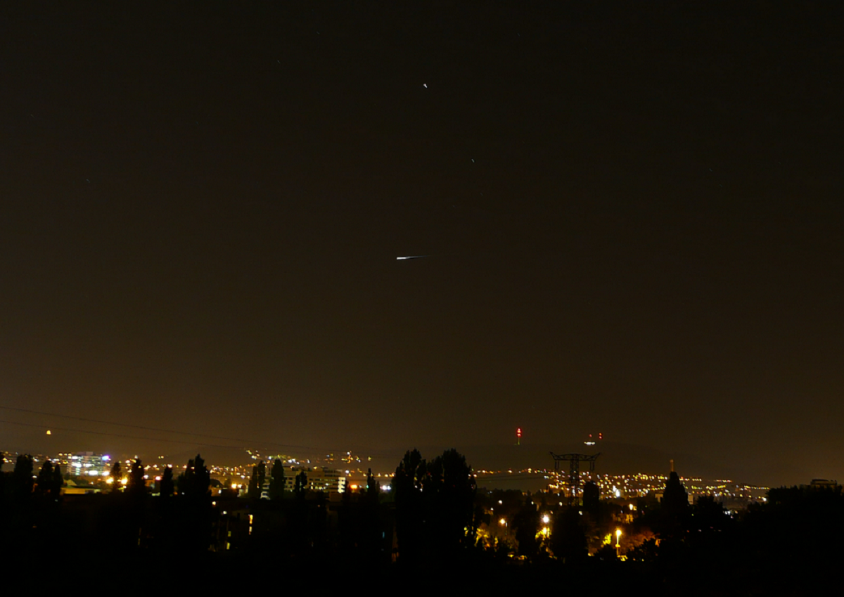 Iridium flare above Budapest,Hungary on 07/08/2008 at 22:57:41 LT.